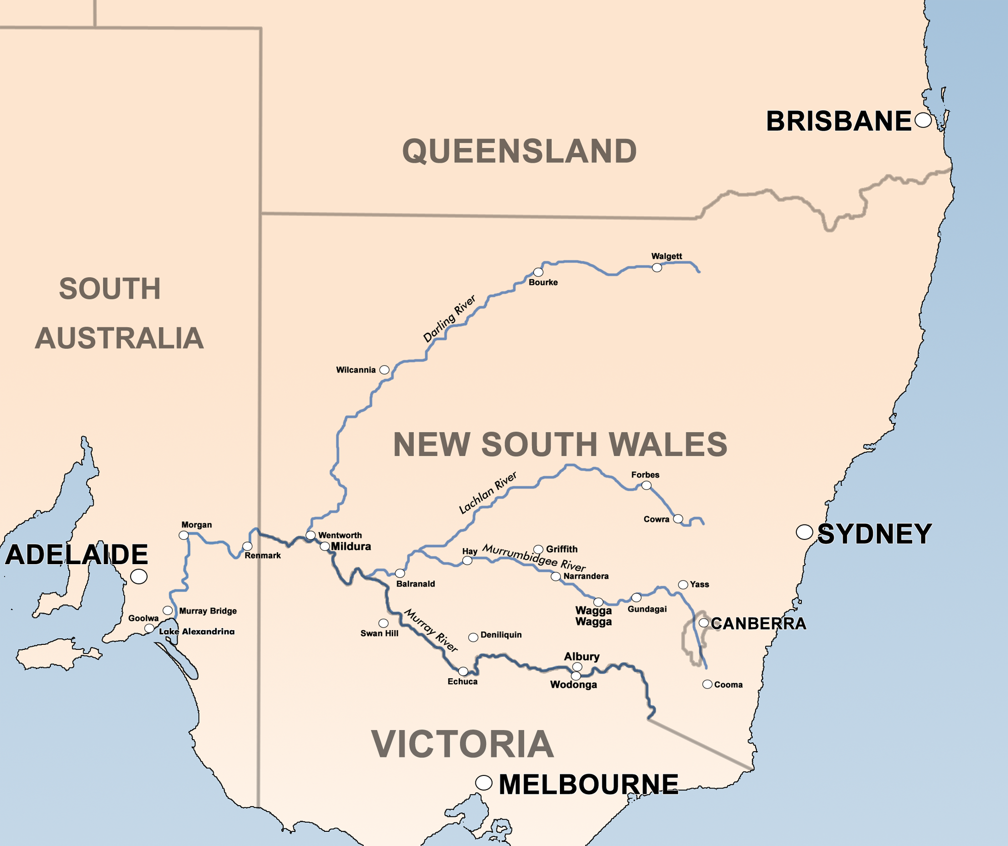 Map of the Towns and Cities plus the Darling, Lachlan, Murrumbidgee and Murray Rivers.